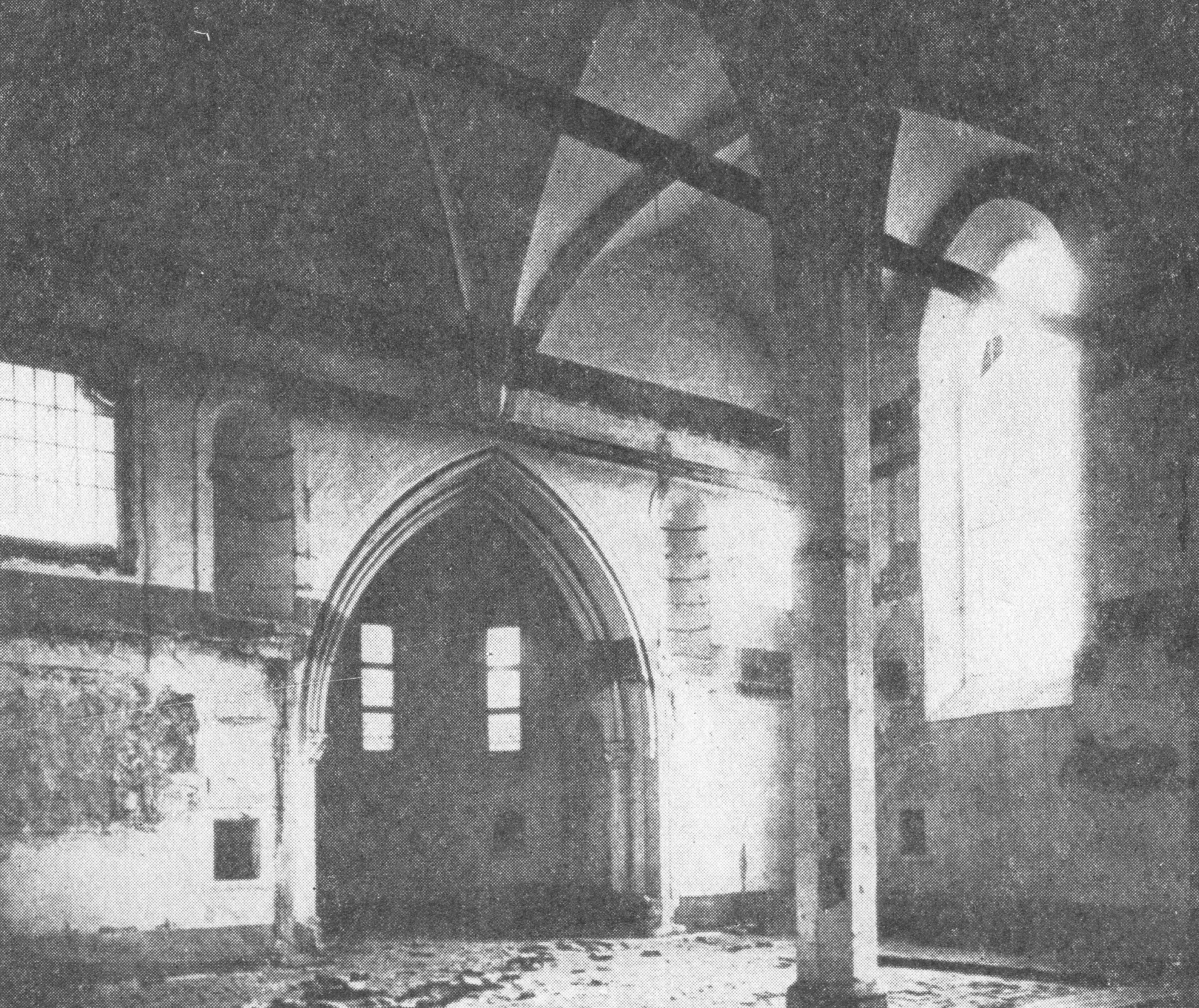 Royal chapel at Dominikánské náměstí, Brno, Czech Republic